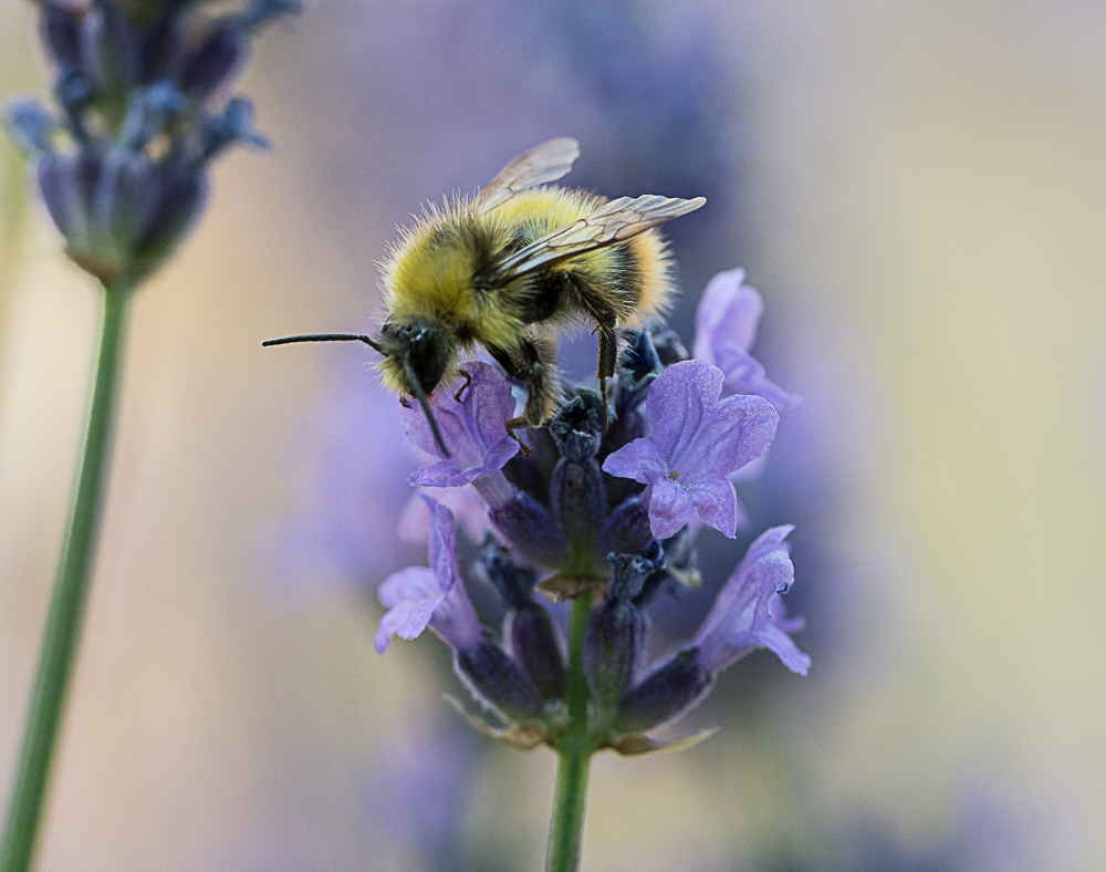 Cullum's bumblebee